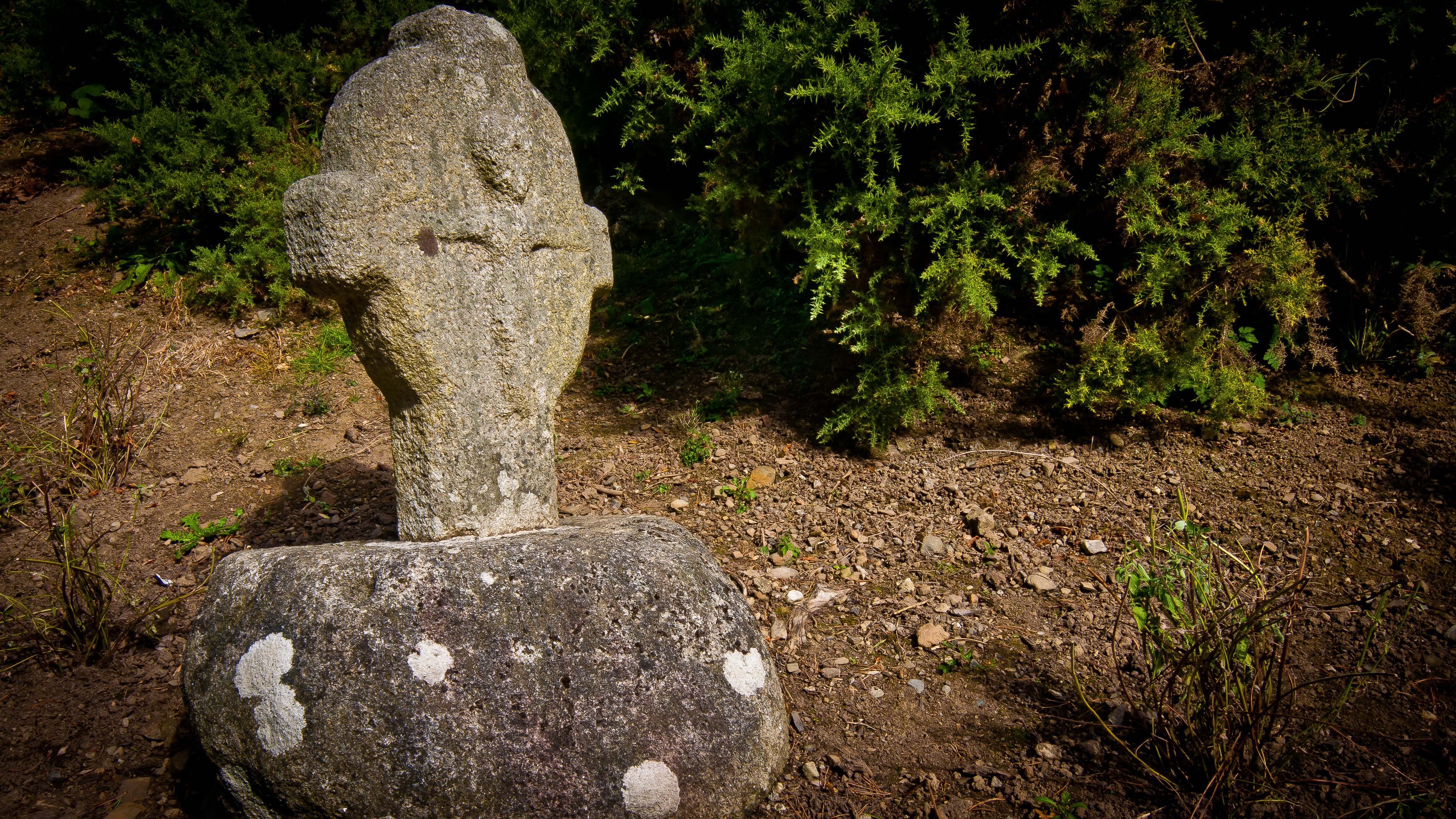 The Little Cross - one of the Fassaroe Crosses - found at Rathmichael Lane, County Dublin, Ireland